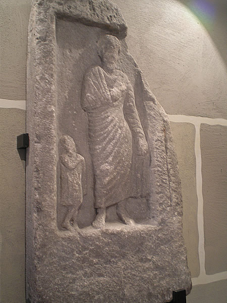 Roman tombstone found in London.